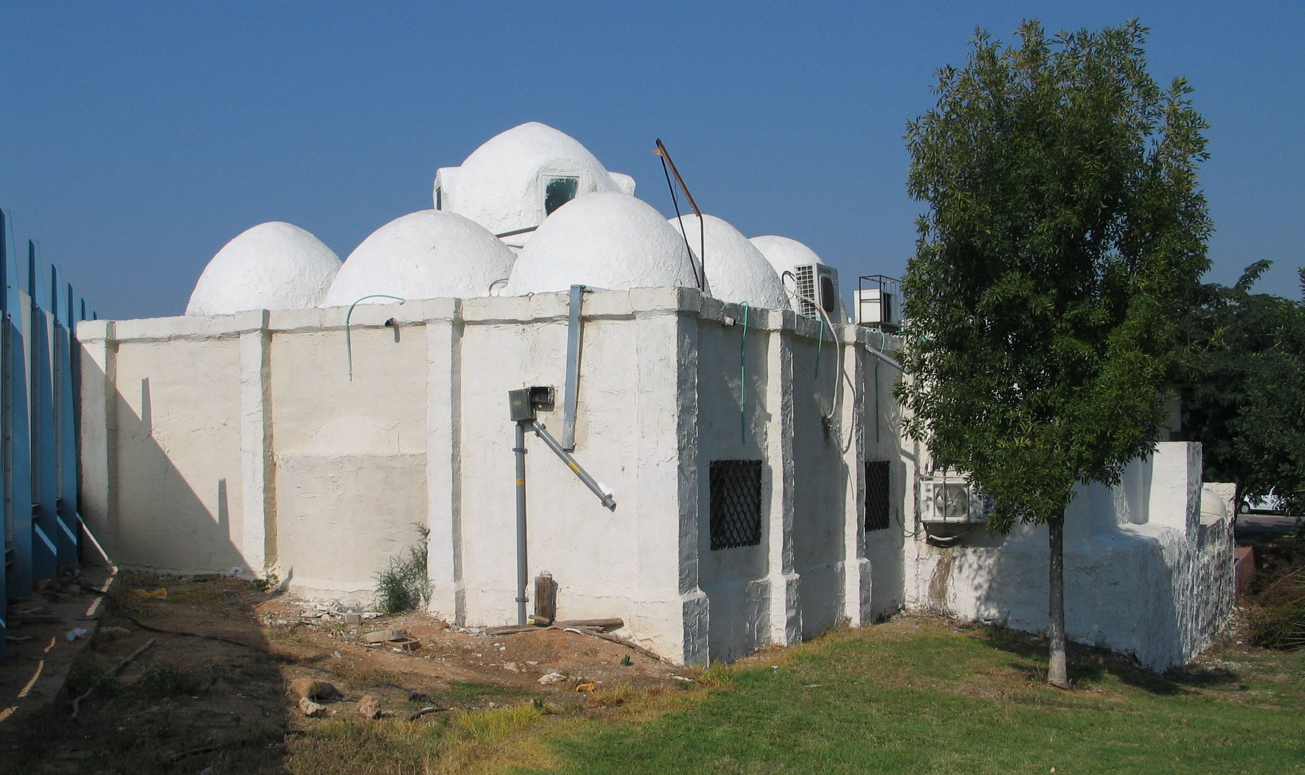 Shaarey Tsiyon synagogue in Azor, Israel.